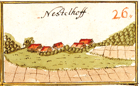 View of Eschelhof, Sulzbach an der Murr, from the forest register books created by Andreas Kieser